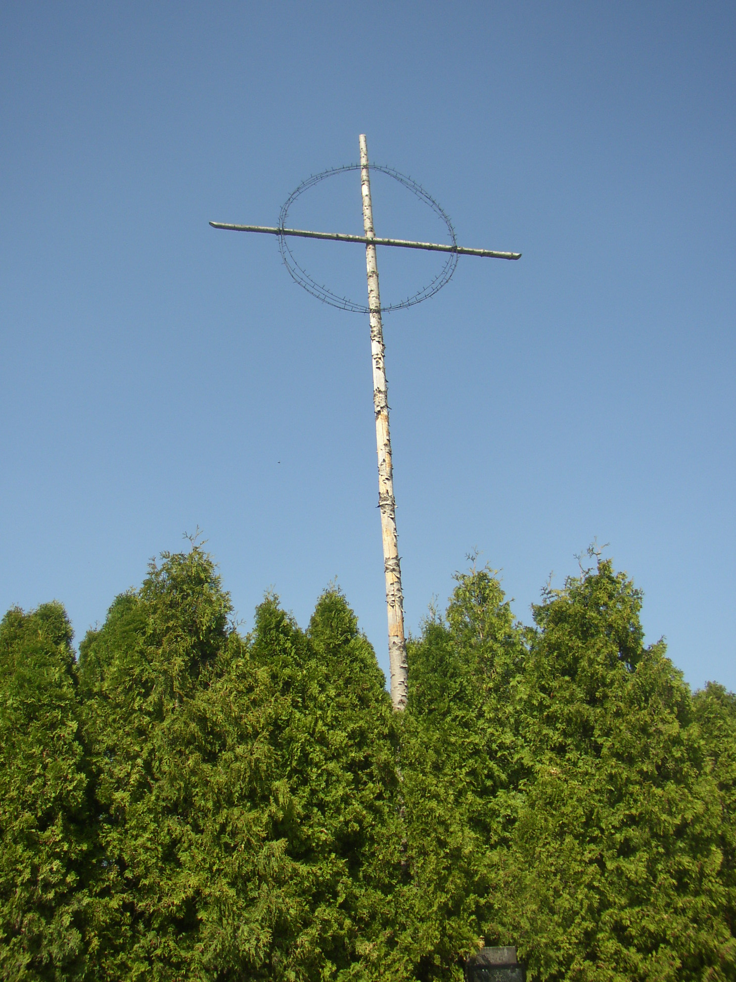 The cross on the grave of Lidice's men became a symbol